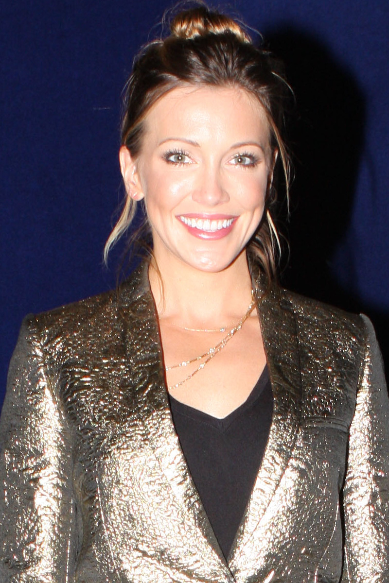 Katie Cassidy at Supanova Pop Culture 2014